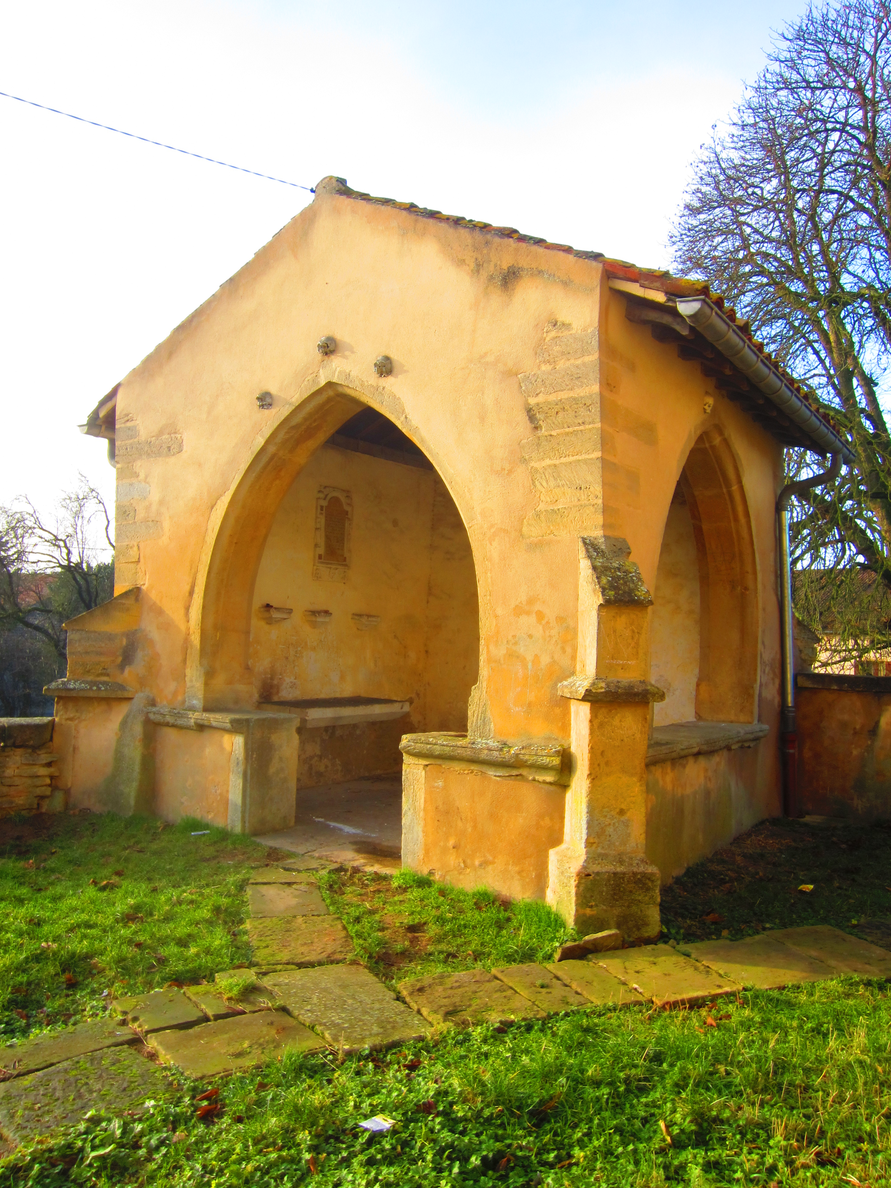 Ossuaire Olley